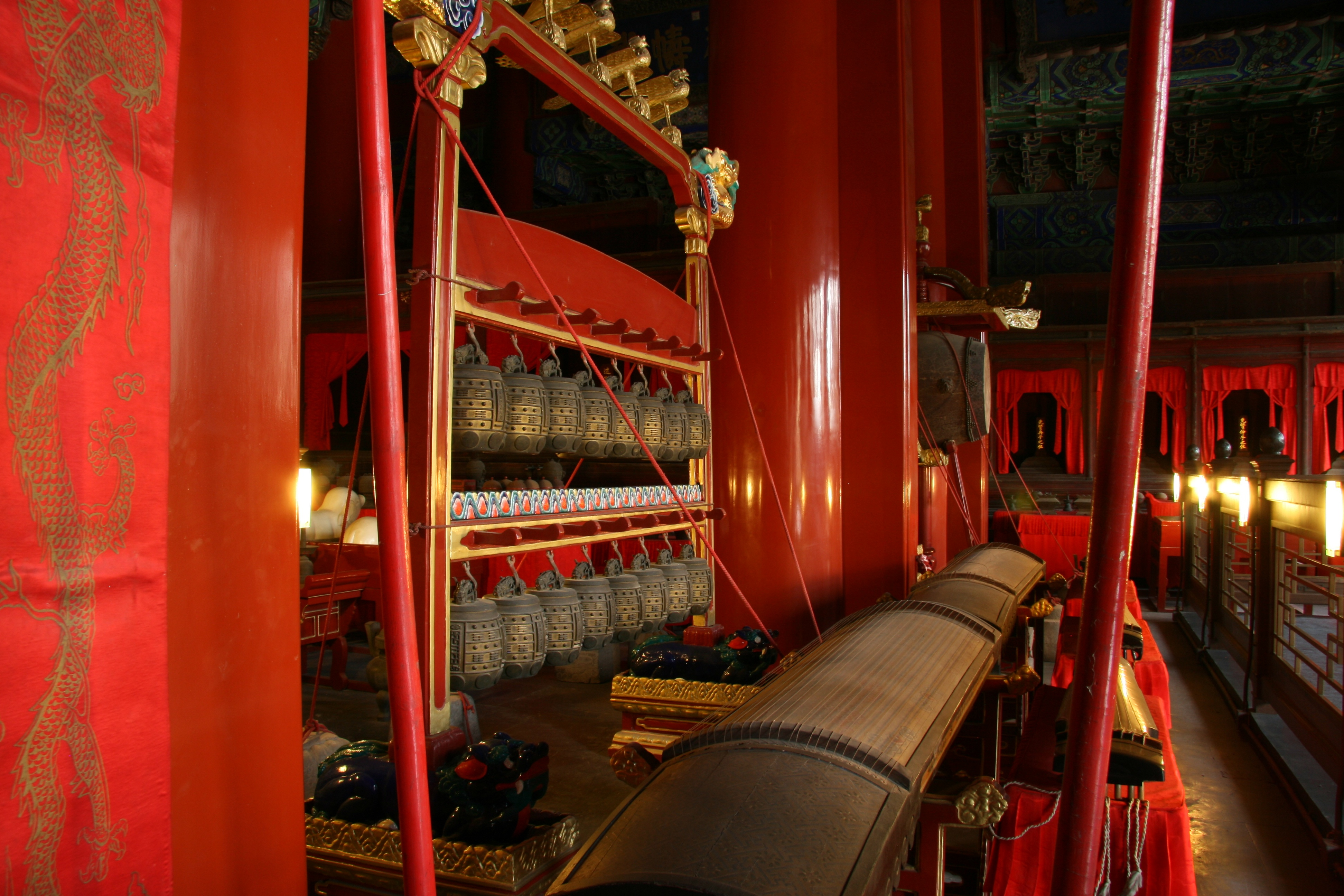 Inside a room displays Chinese instruments at the Guozijian in Beijing